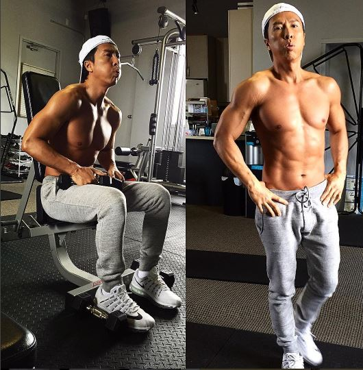 Donnie Yen in gym